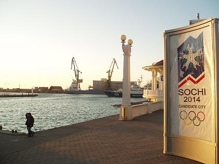 The Sochi waterfront.(ATR)